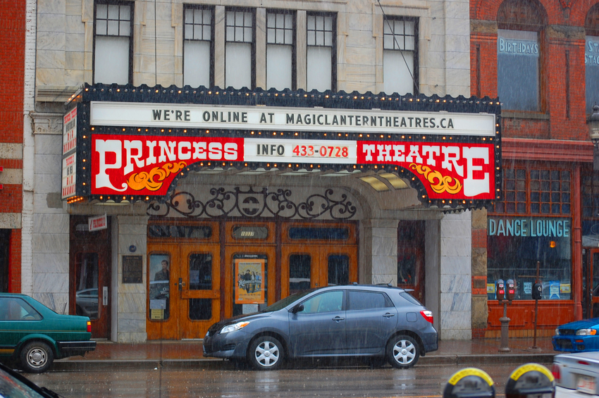 Exterior of Princess Theatre exterior taken from the north side of Whyte Ave between 103 and 104 streets in Edmonton Alberta.